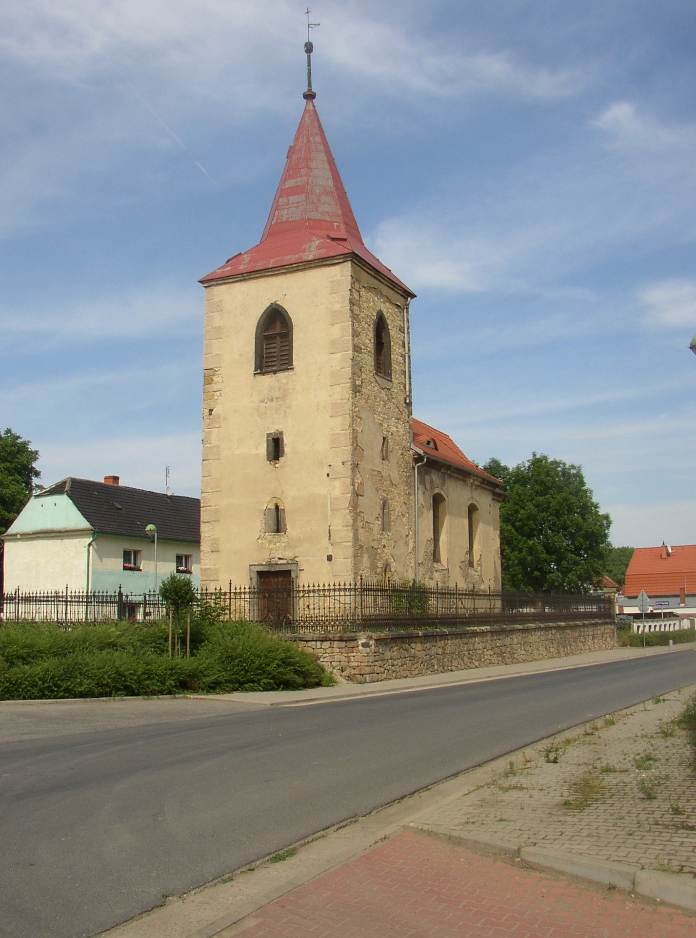 Mlékojedy, Litoměřice District, Czech Republic. St Martin church.